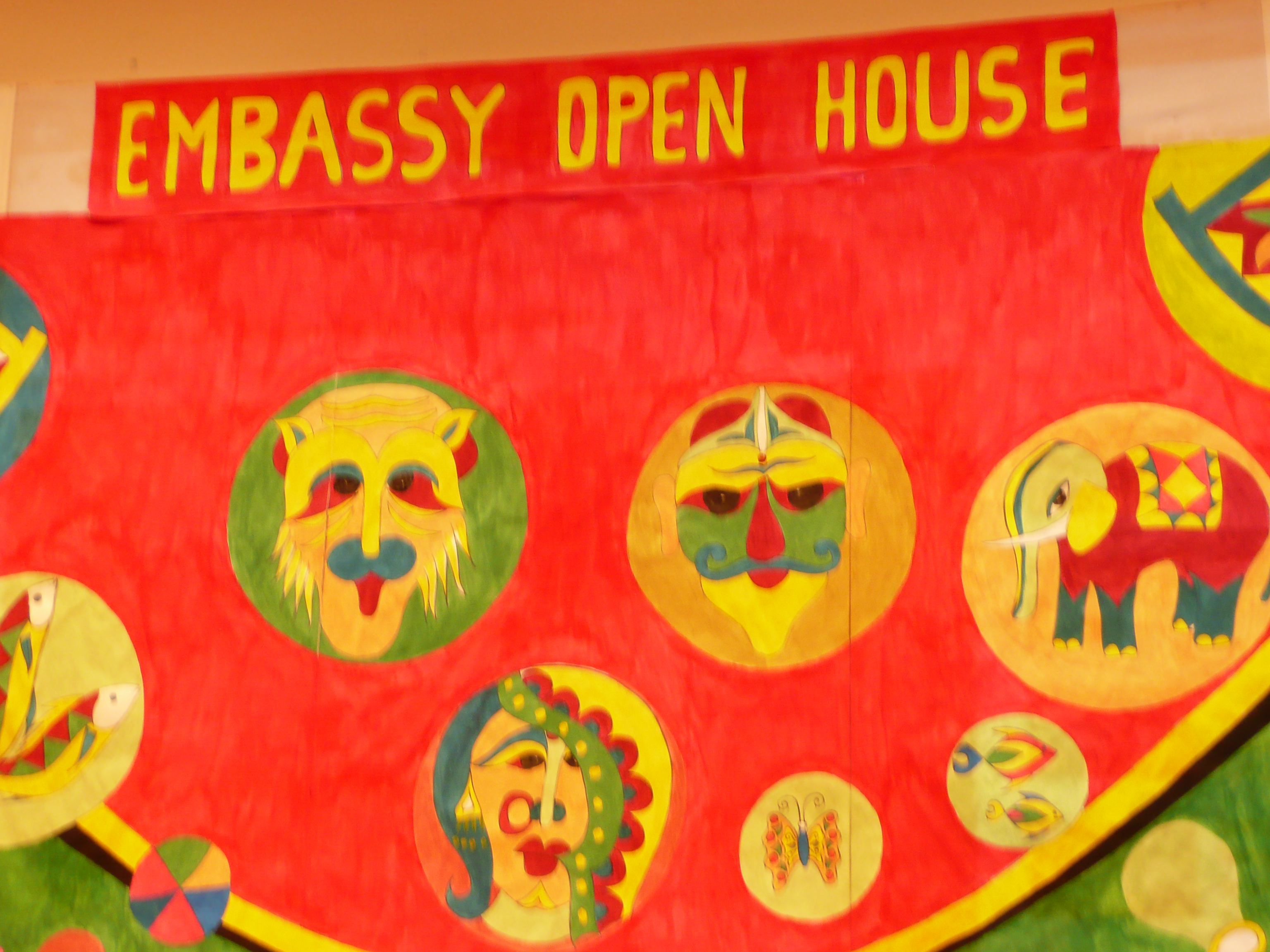 Embassy Open House banner at Embassy of Bangladesh in Washington, D.C. Photo from Wikis Take Embassies, 2011.